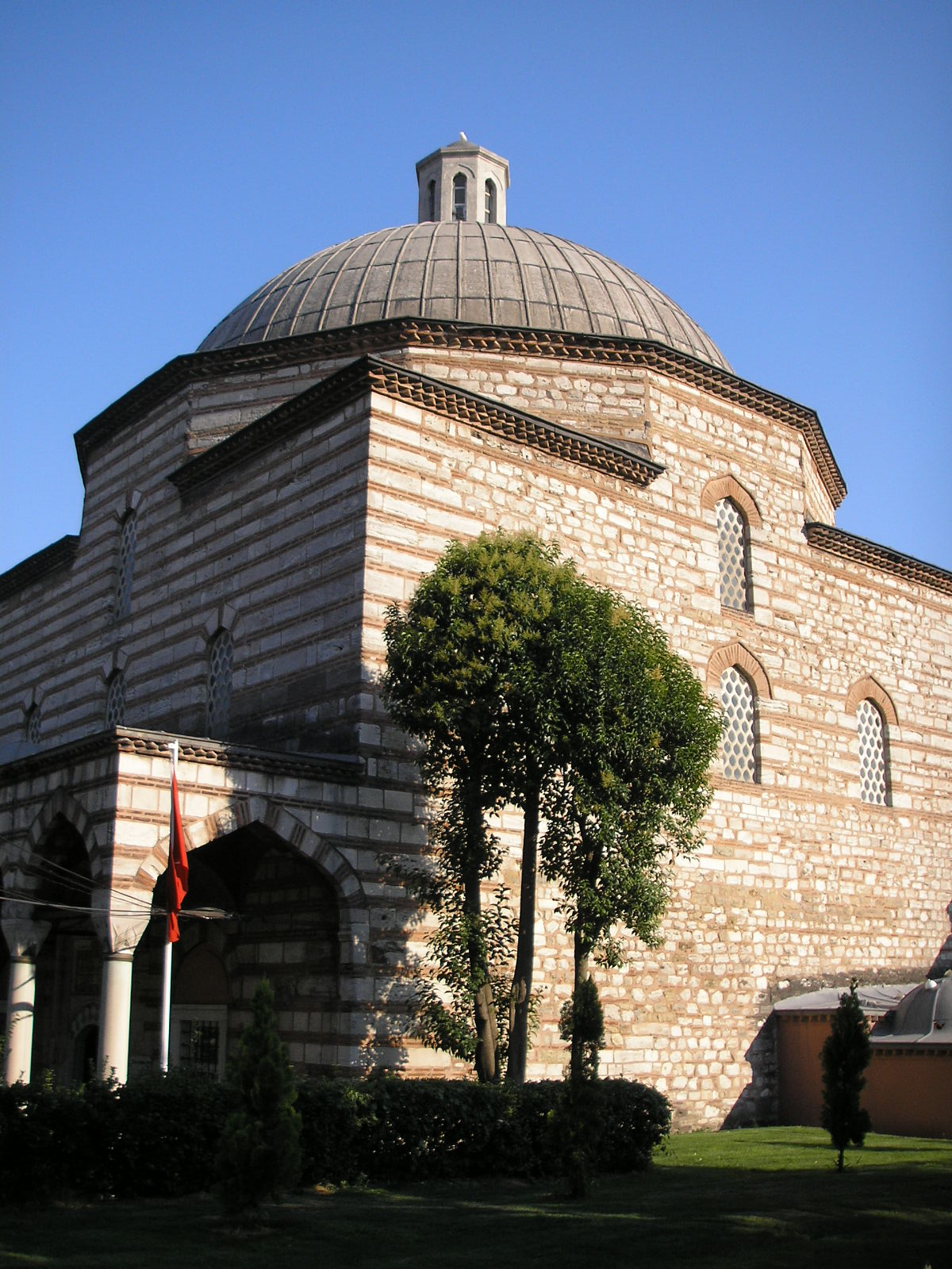 The turkish bath (hamam) constructed by Haseki Hürrem Sultan, known in the West as Roxelana or Roxelane. Located in Istanbul close to the Hagia Sophia.